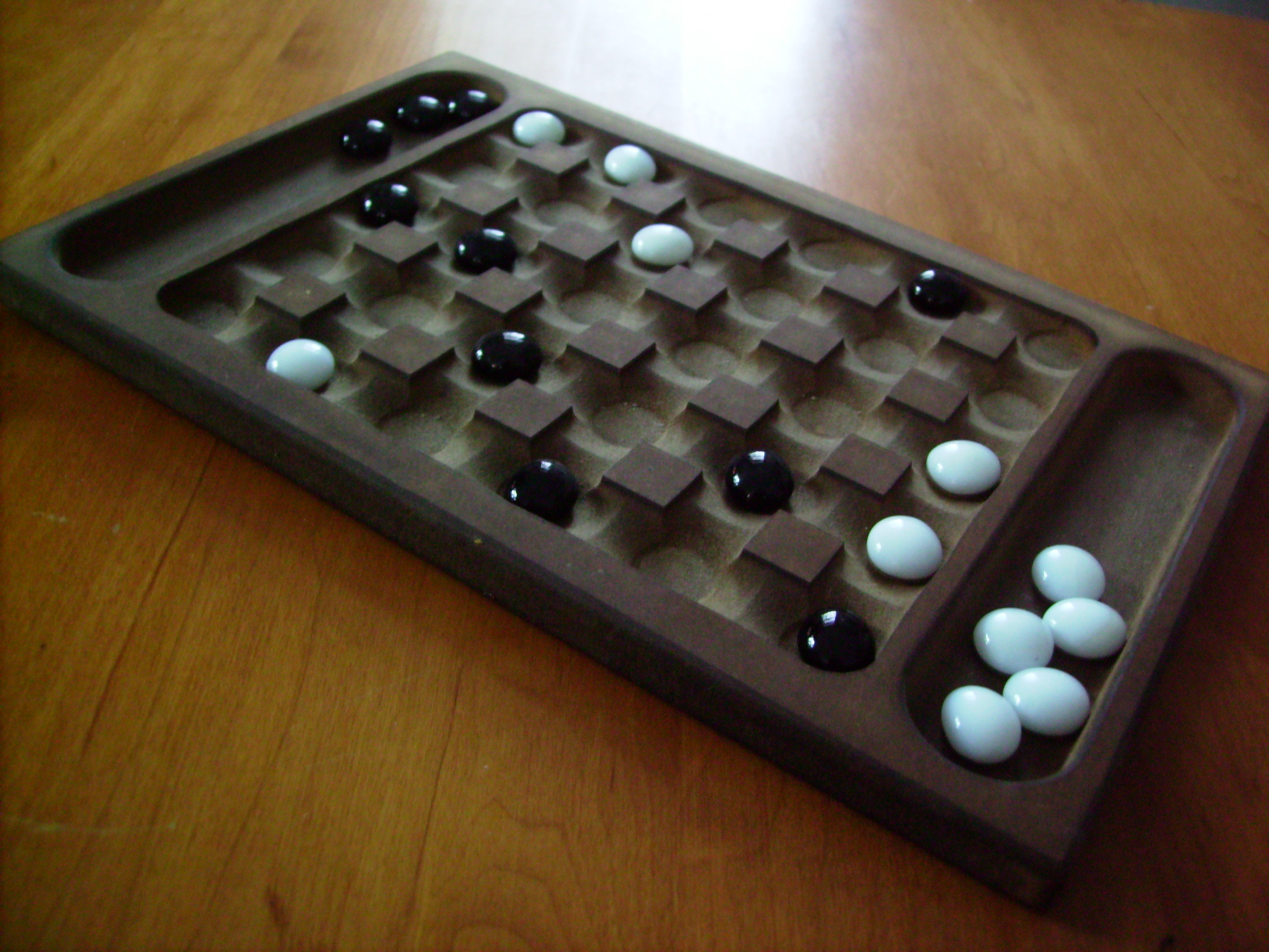 A yote board with a game in progress